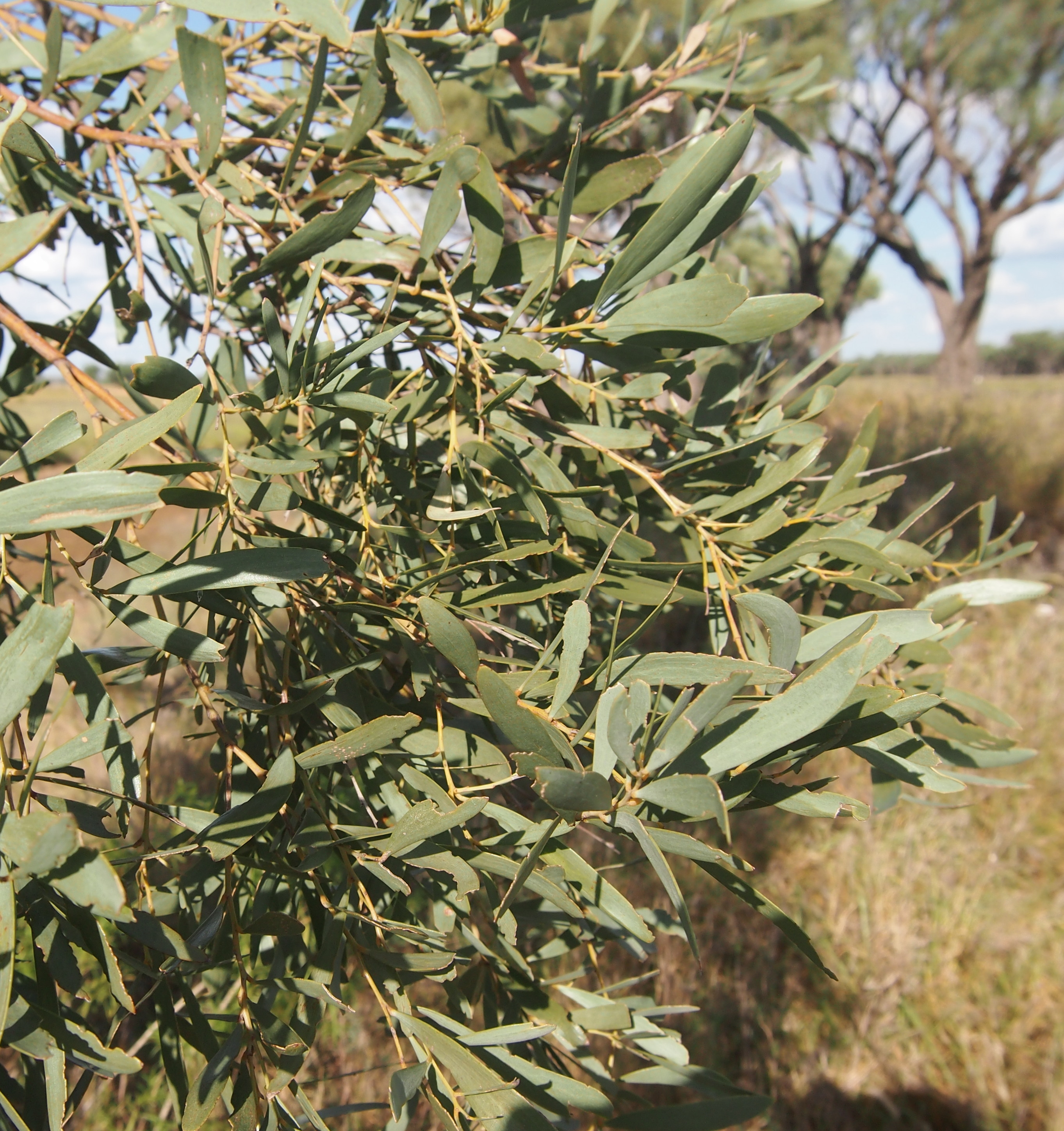 Acacia cambagei foliage